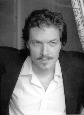 Antonio Domenici, Italian director and screenwriter.